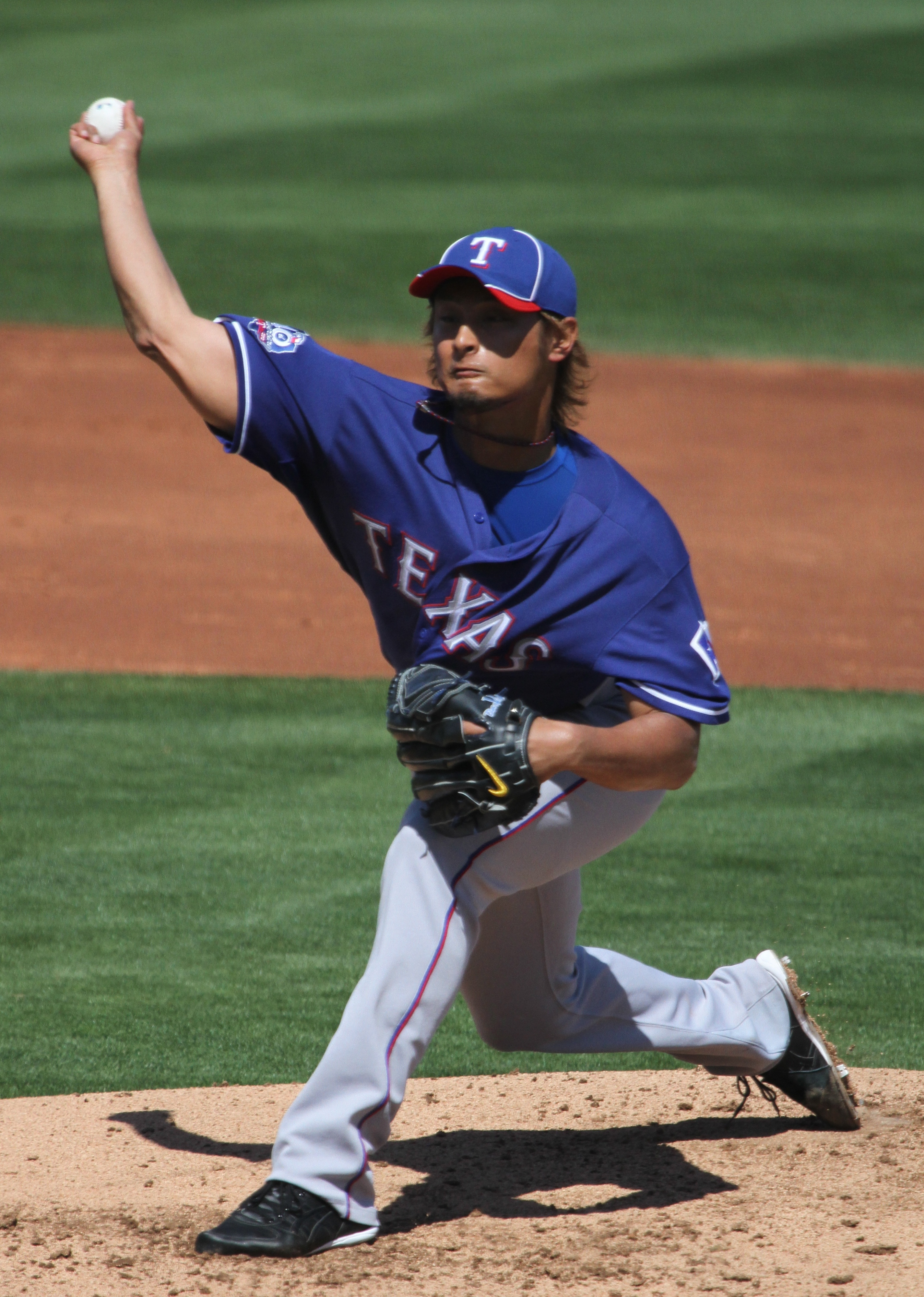 Yu Darvish